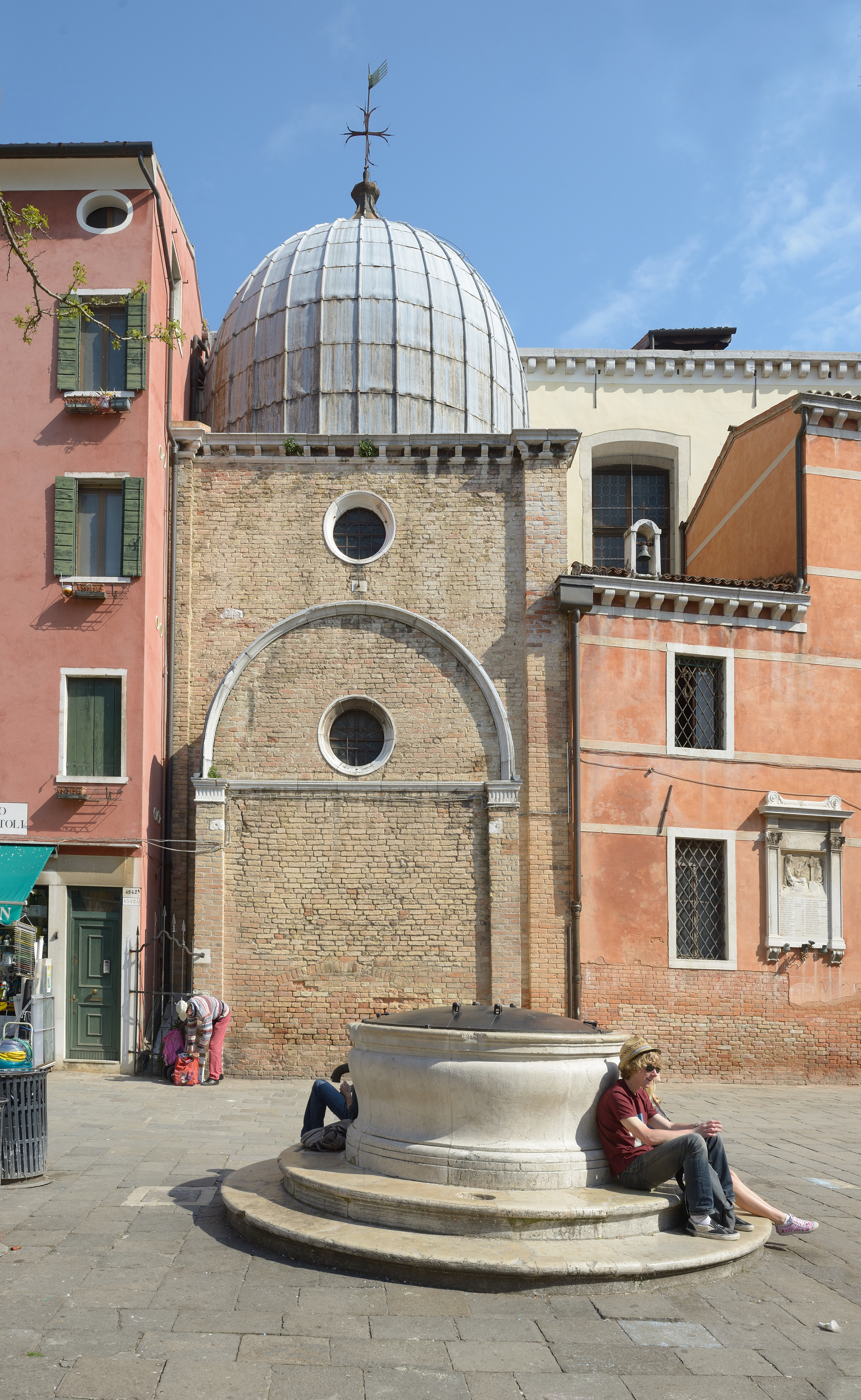 Water well on "Campo Santi Apostoli" square, in the back "Santi Apostoli" church in Venice.